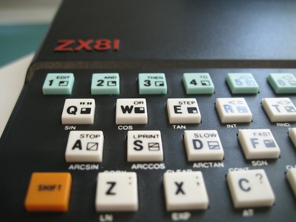 A Sinclair ZX81 with a modified pseudo-chiclet keyboard.